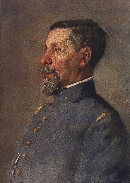 Portrait of French general Pierre Auguste Roques (1856-1920)